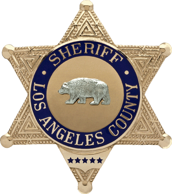 The badge of the Sheriff of the County of Los Angeles. The badge of a deputy of the Los Angeles County Sheriff's Department (LASD) is similar, although it says "DEPUTY SHERIFF" instead of "SHERIFF", and has the deputy's badge number etched on the bottom.